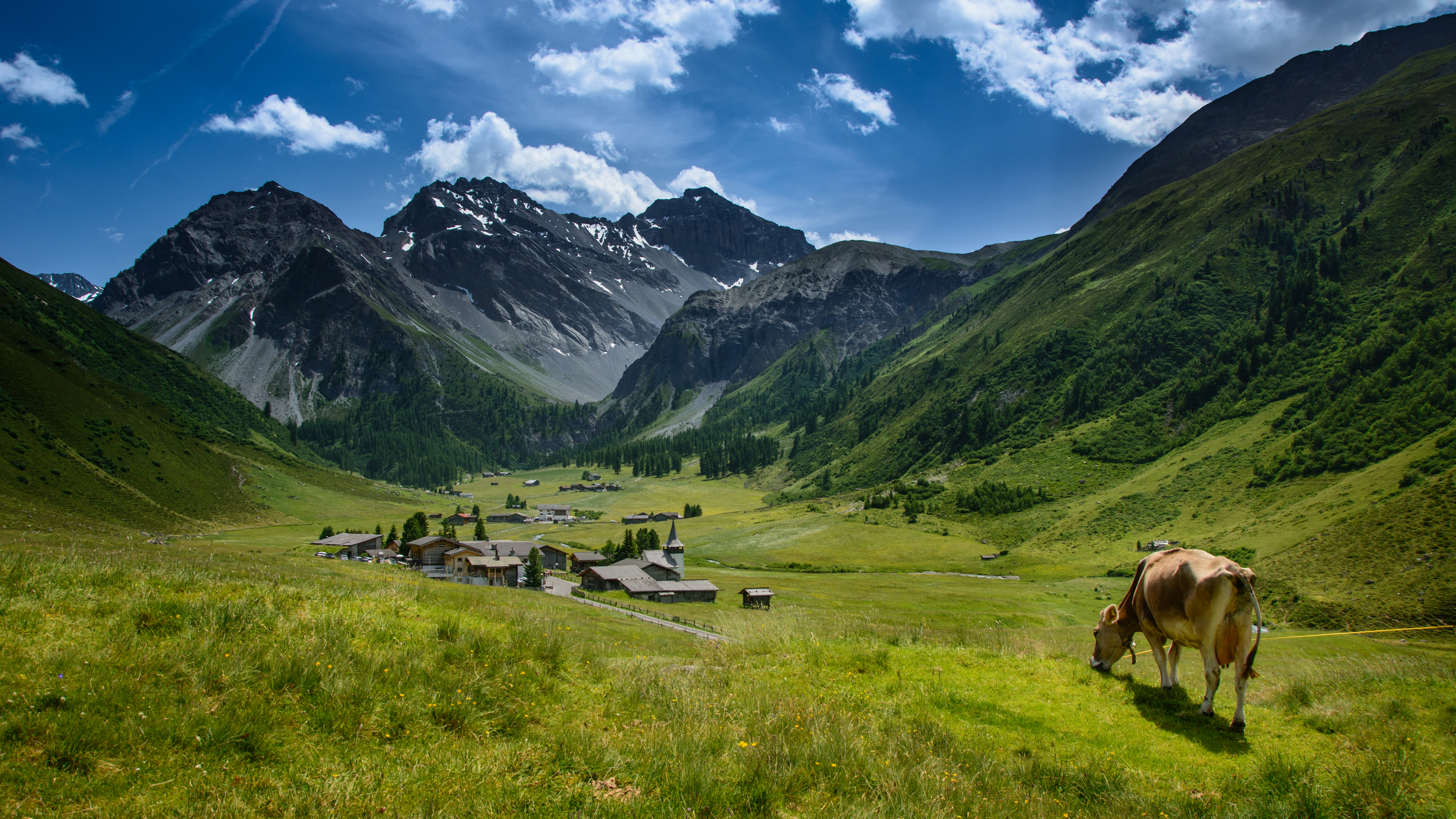 A cow in the picturesque mountain landscape around Sertig Dörfli, Davos, Switzerland